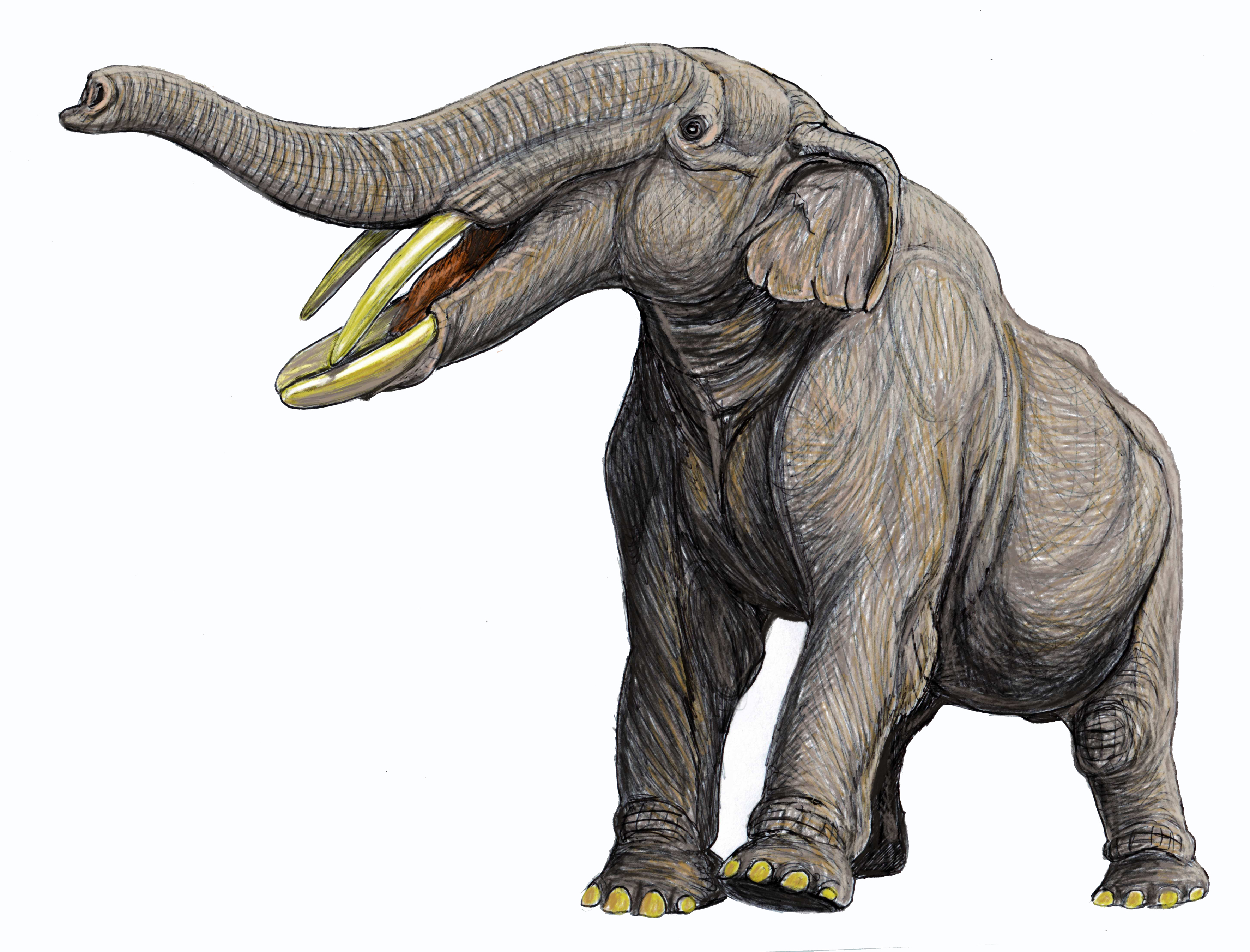 Amebelodon britti, shovel-tusker gomphothere from Late Miocene - Early Pliocene of North America